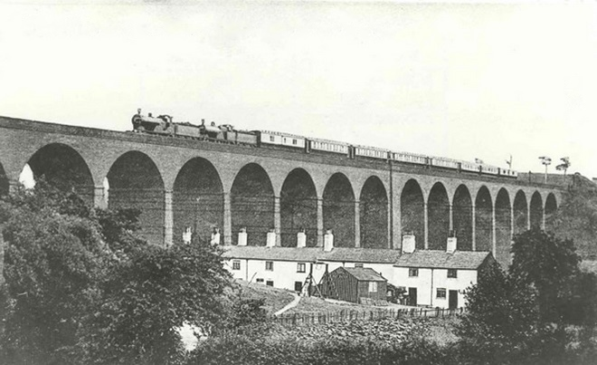 The British Royal Train travels over the Reddish Vale Viaduct in Stockport.